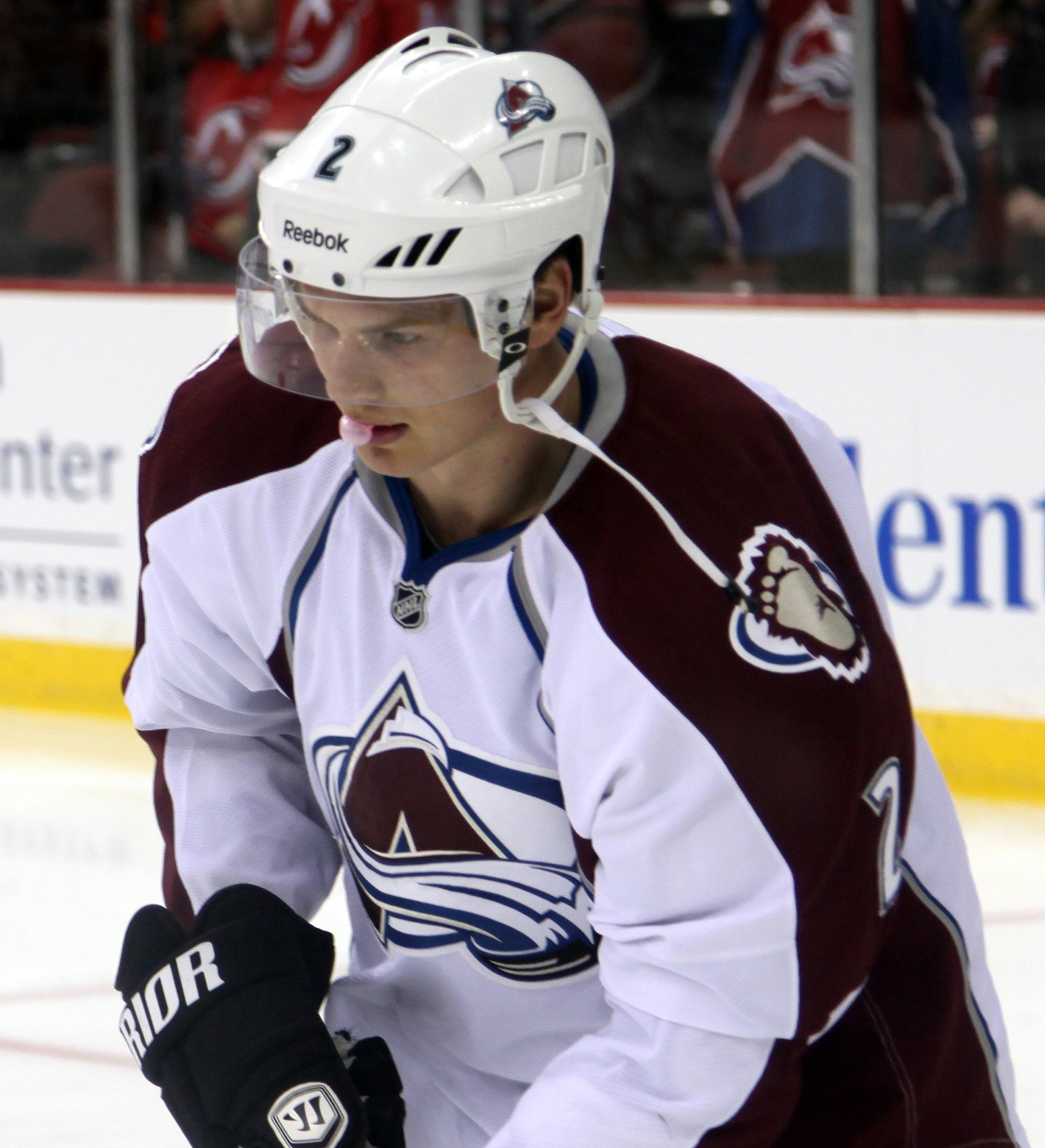 Holden in February 2014.